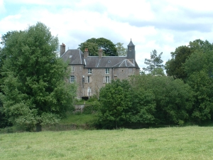 Castle of Orbigny in Saint-Pierre-la-Vieille (Calvados, France)